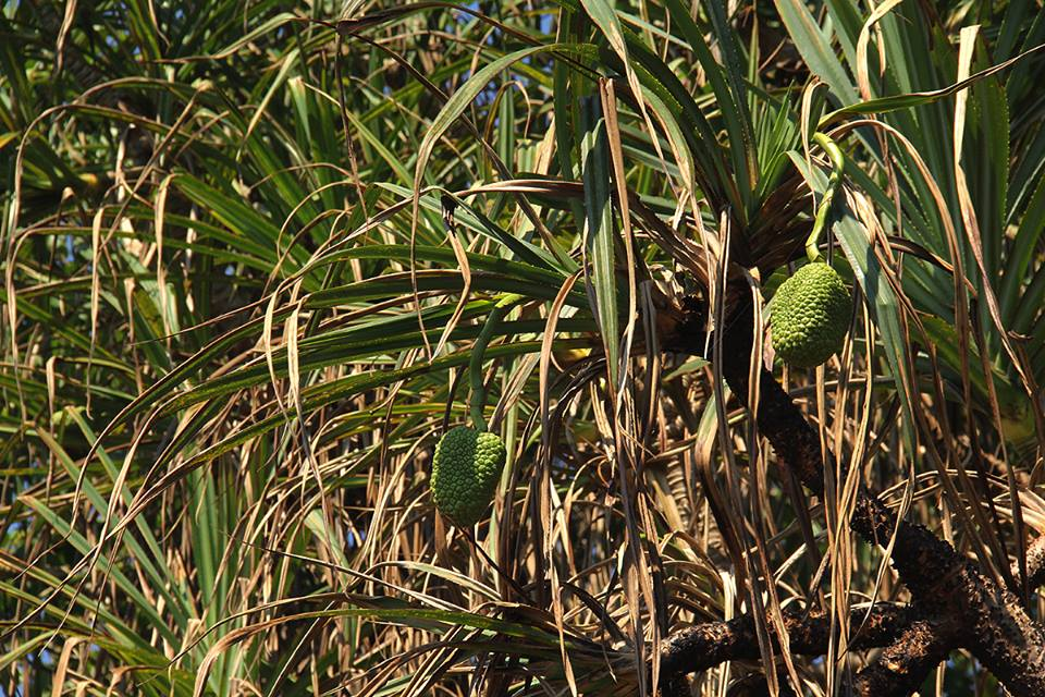 Compound fruit of a Screw pine in Mozambique